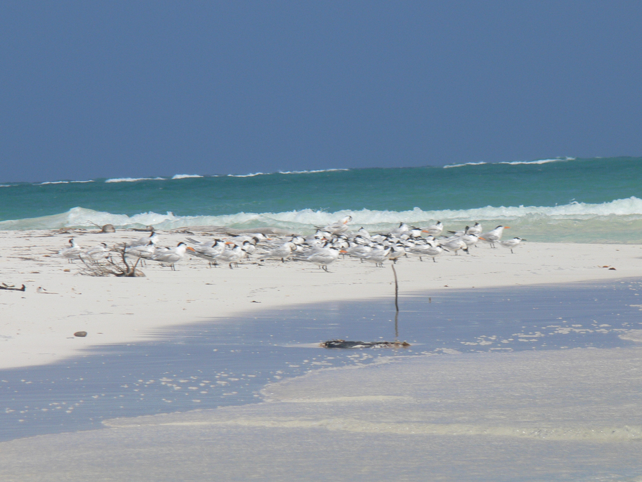 Sian Ka´an. Seabirds near Boca Paila